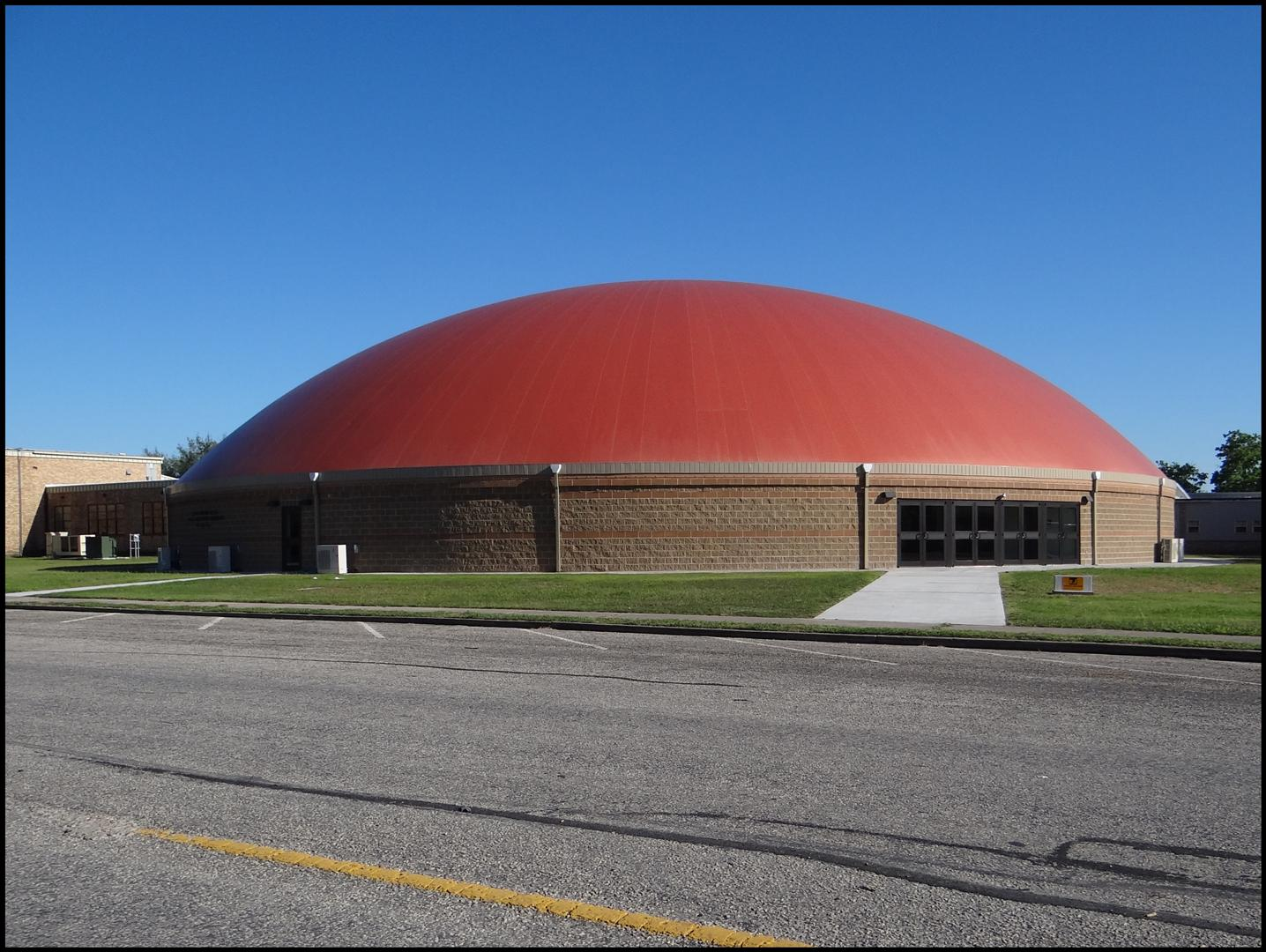 Here's an article about this building